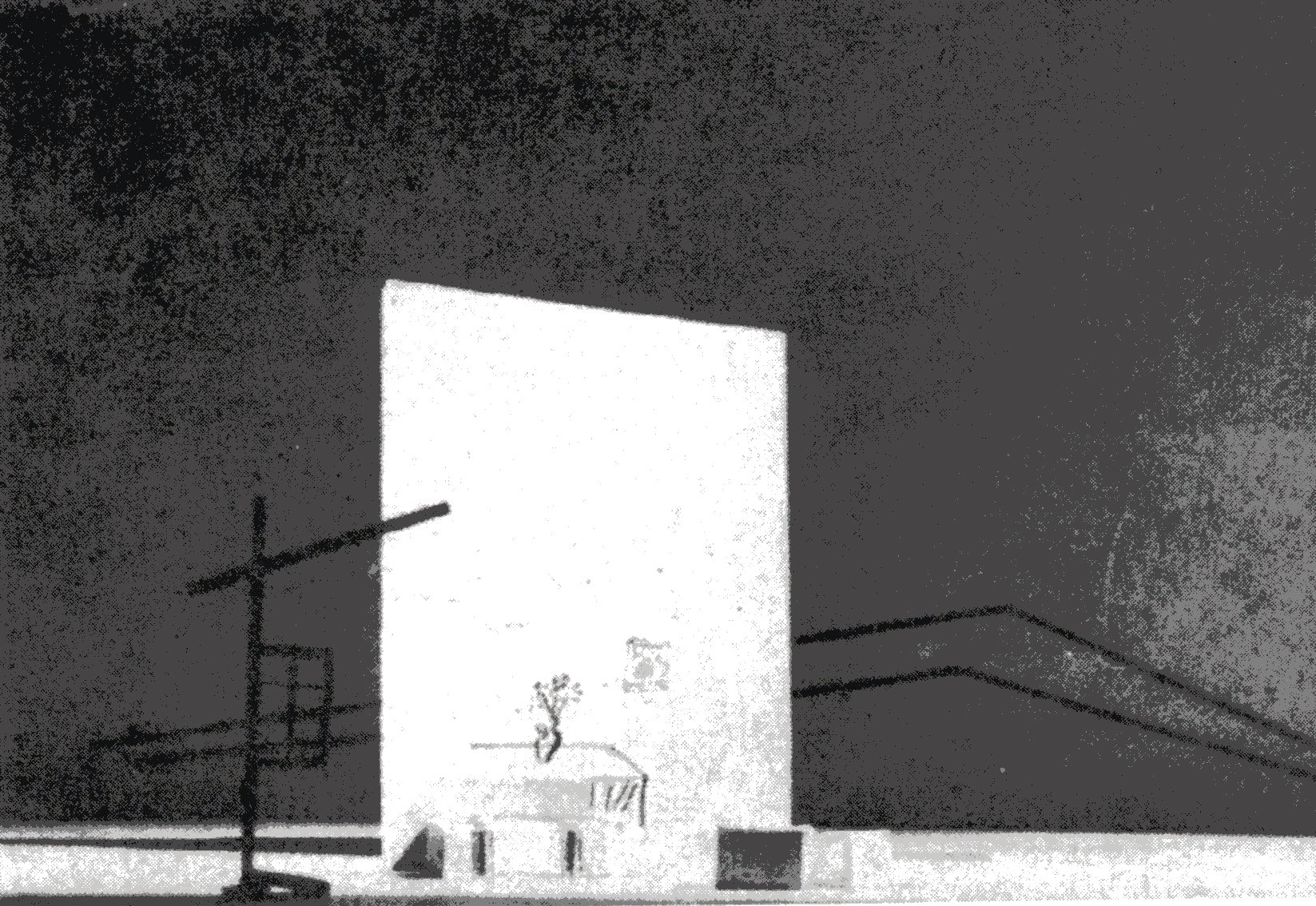 He Walked Through The Fields, 1948 Set disighn by Arieh Navon